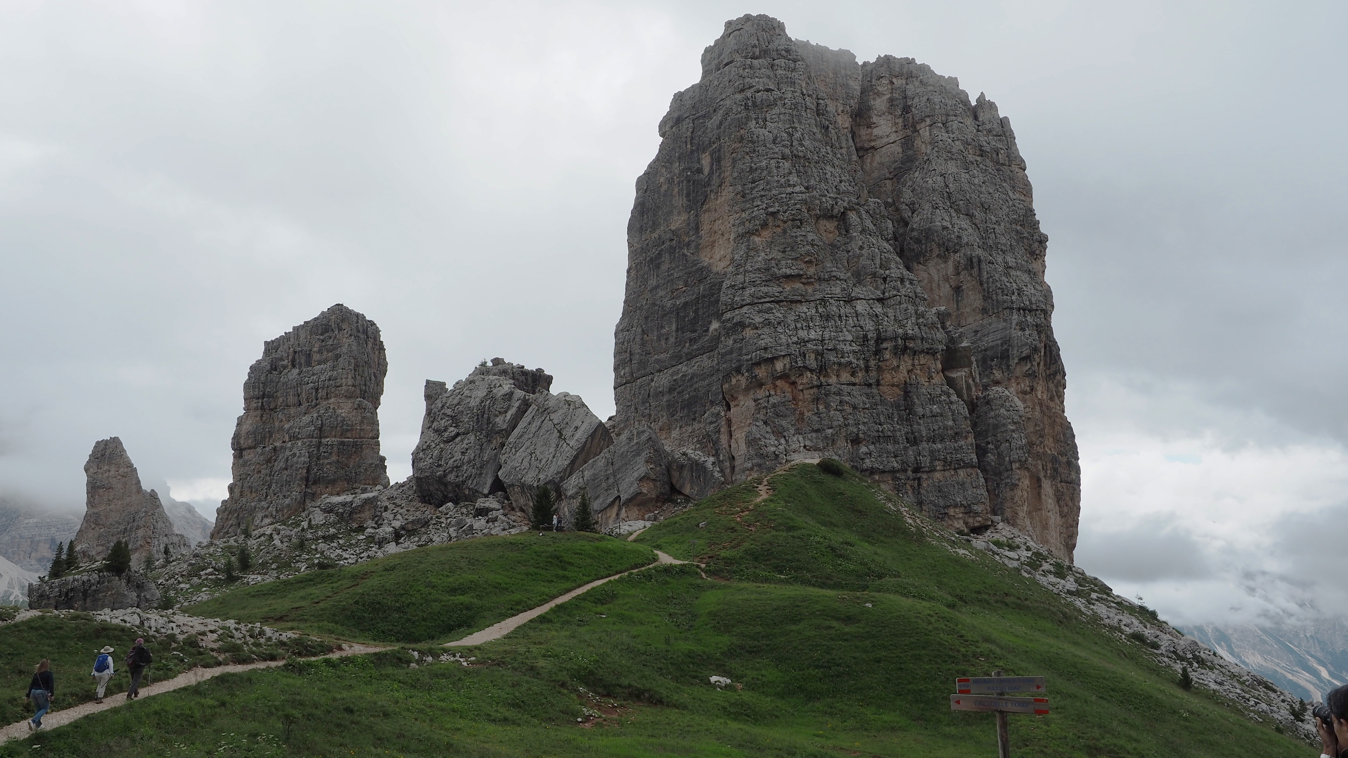 Cinque Torri, view from west.